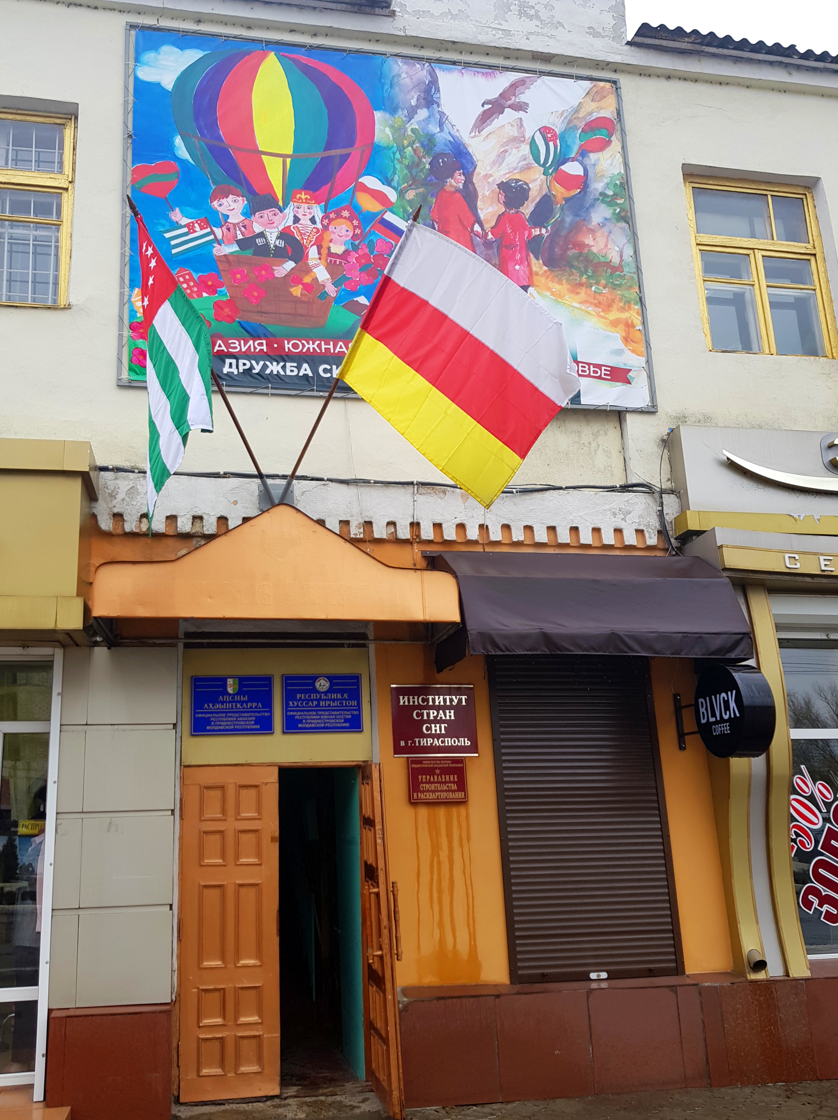 In the same building on Strada 25 Octombrie in the Transnistrian city of Tiraspol are the embassies of “independent” Abchazia and South Ossetia.